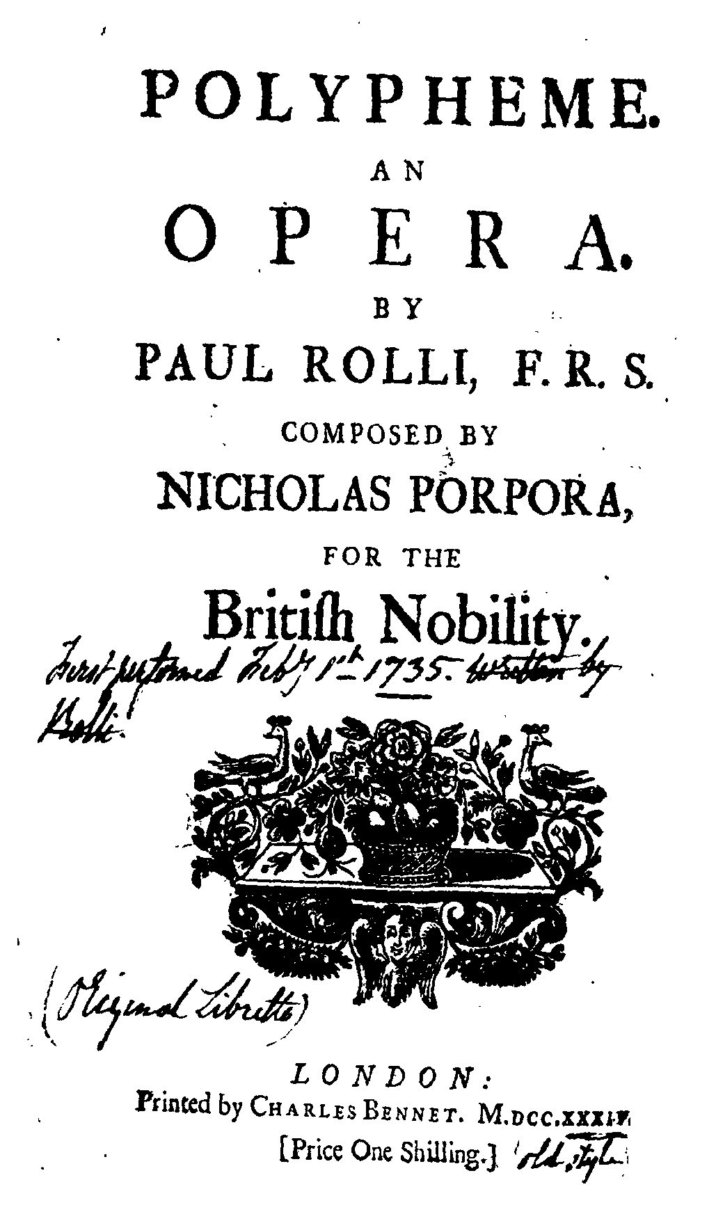 Title page of the revised version of Nicola Porpora's opera Polifemo. Although the date is given as "1734" this was the "old style" (as indicated by the handwritten annotatioN) - that at this time the new year was reckoned from 25 March. Reproduction of the copy in the British Library.